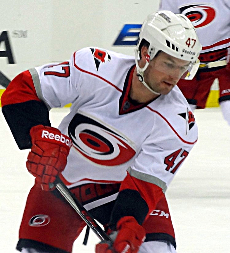 Carolina Hurricanes defenseman Marc-Andre Bergeron lines up against the Pittsburgh Penguins, April 27, 2013 at Consol Energy Center in Pittsburgh, PA.